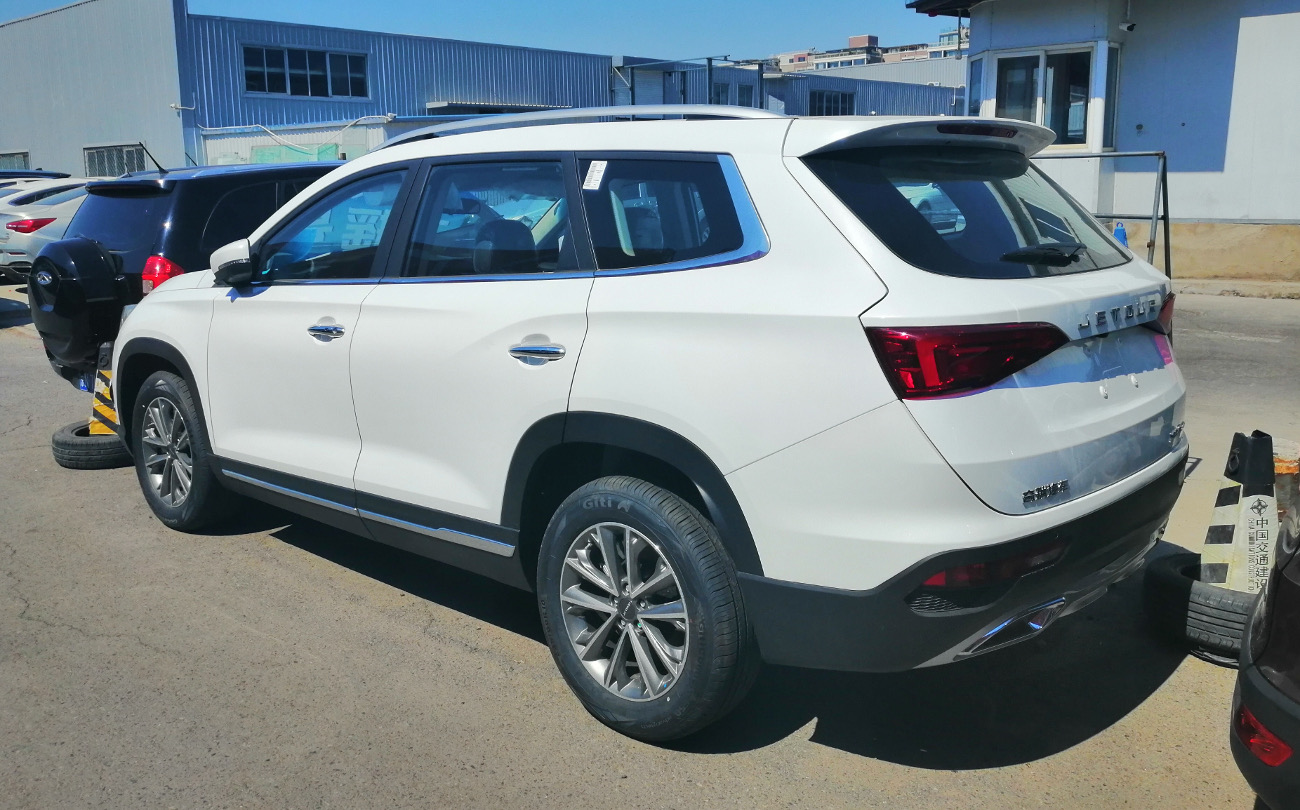 Jetour X90 photographed in Beijing, China.